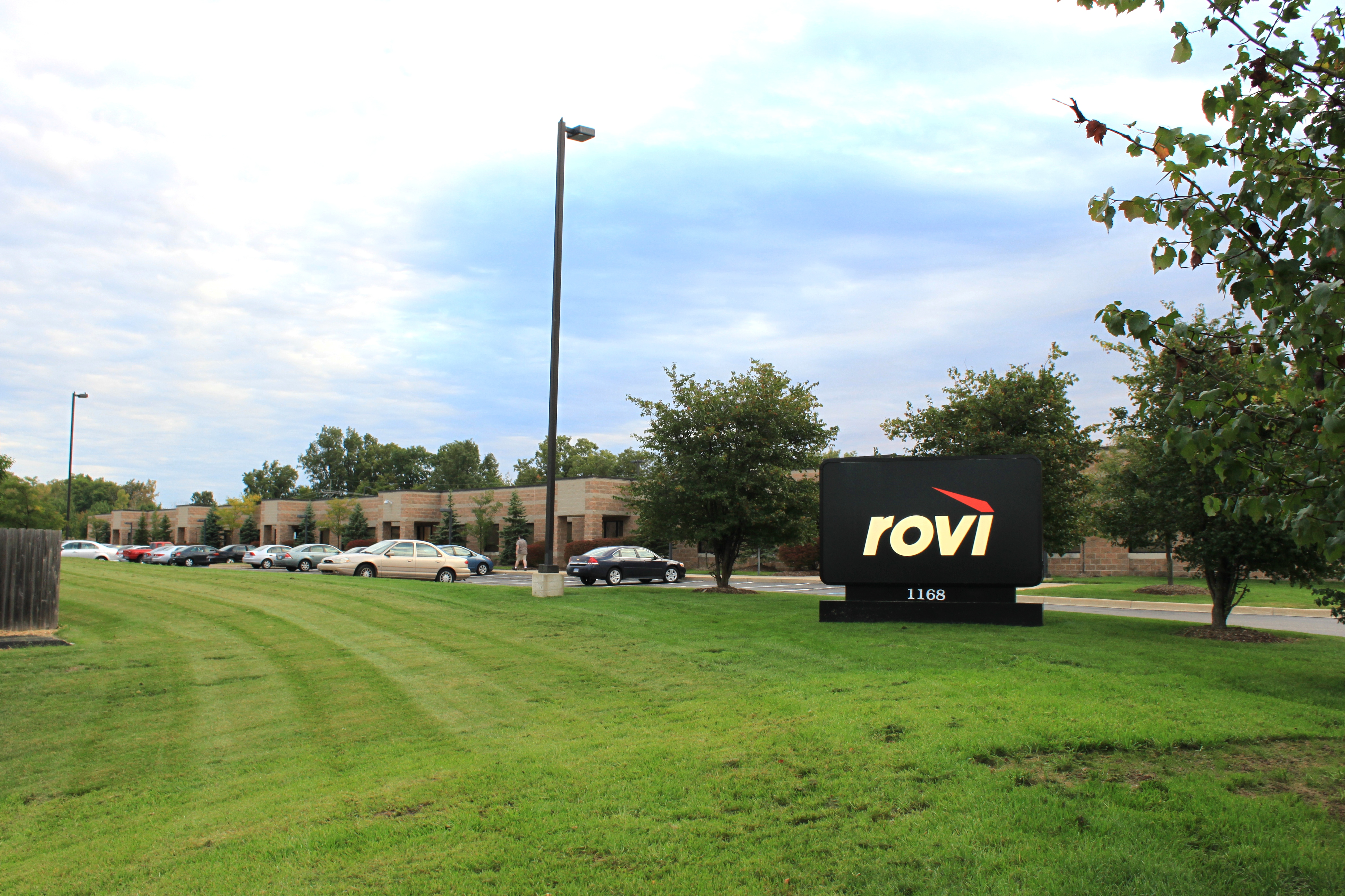 All Media Guide/Rovi offices, 1168 Oak Valley Drive, Ann Arbor, Michigan.